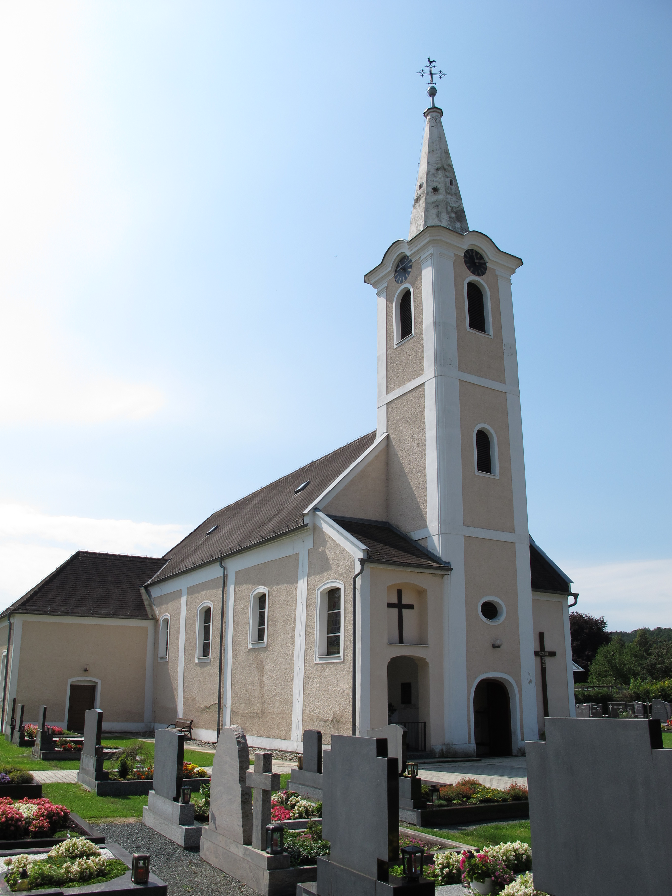 Kirche Piringsdorf